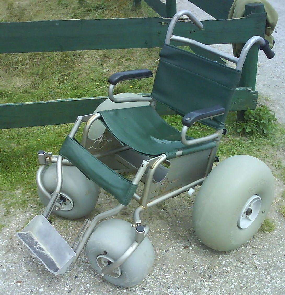 Wheelchair with wide wheels. These wide tires make the wheelchair suitable for use in sandy conditions, like on a beach. This photo was taken near the beach of the Dutch island of Schiermonnikoog.